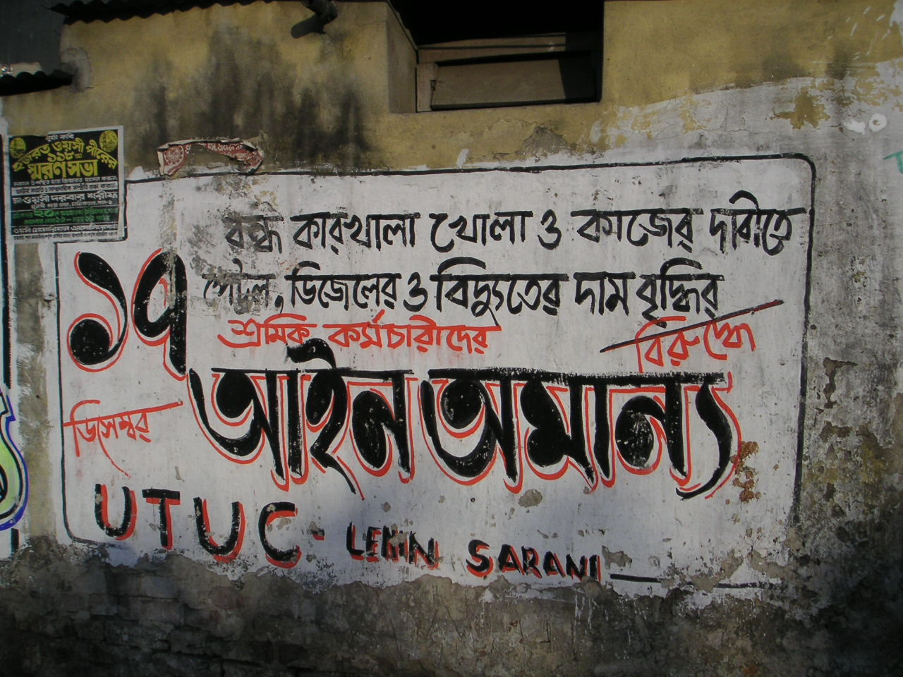 United Trade Union Congres (Lenin Sarani) mural in Kolkata. Photo: Soman